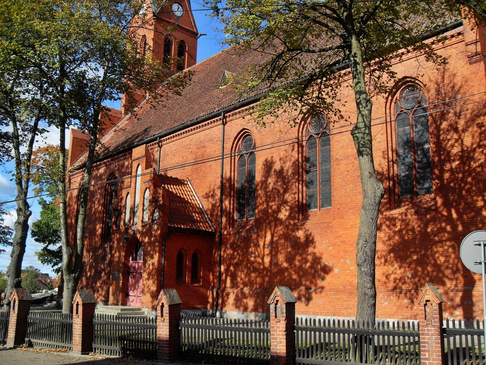 Outer sidewall